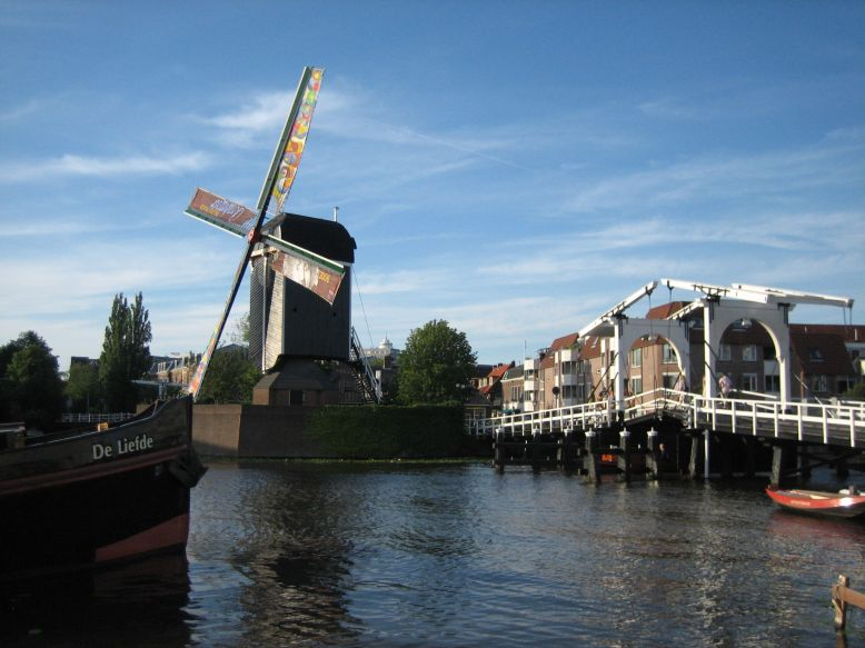 Imagen del Molen De Put, uno de los molinos de la ciudad de Leiden (Países Bajos), tomada desde el Rembrandtpark. Foto tomada por Enrique Boira Freire (usuario Enboifre), el 29 de julio del 2006. Image of the Molen De Put, one of the wind mills from the city of Leiden (The Netherlands), taken from the Rembrandtpark. Picture taken by Enrique Boira Freire (user Enboifre), on the 29th July 2006.